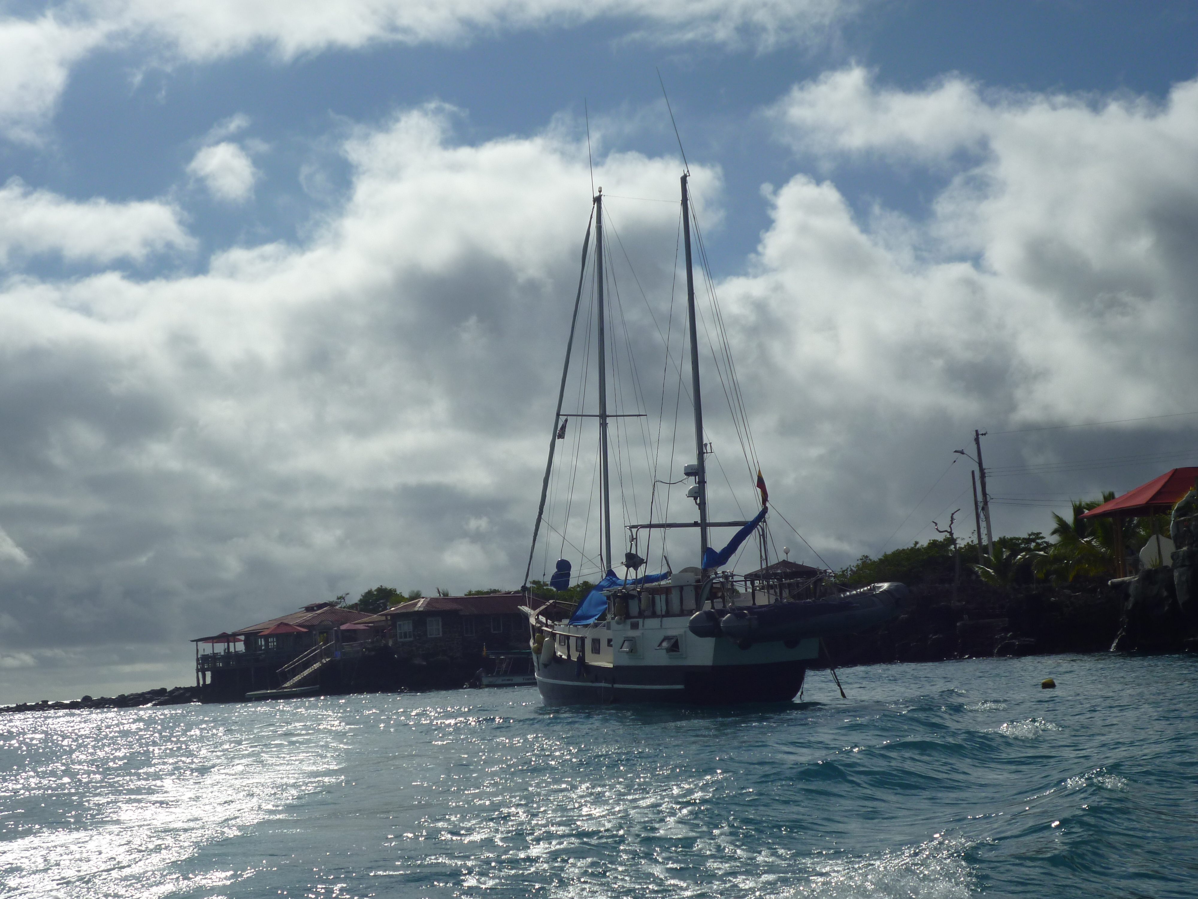 A sailboat in Puerto Ayora on the Island of Santa Cruz, Galapagos - photographed by David Adam Kess